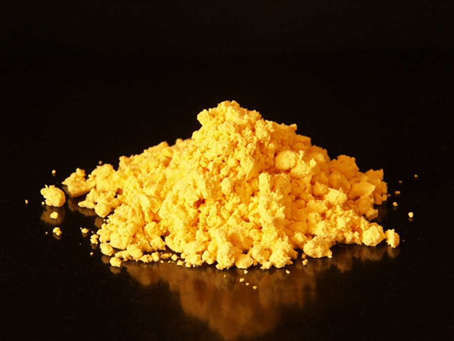 Гексанитрокобальтат(III) калия